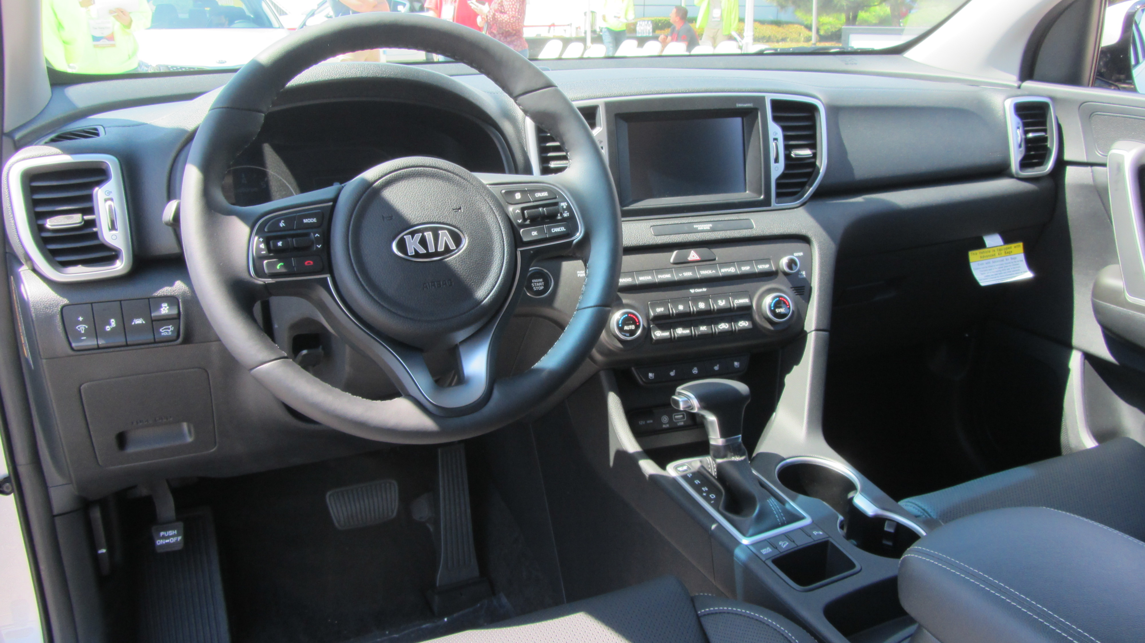 2016 Kia Sportage on display at Kia Motors' Hwasung Proving Grounds.